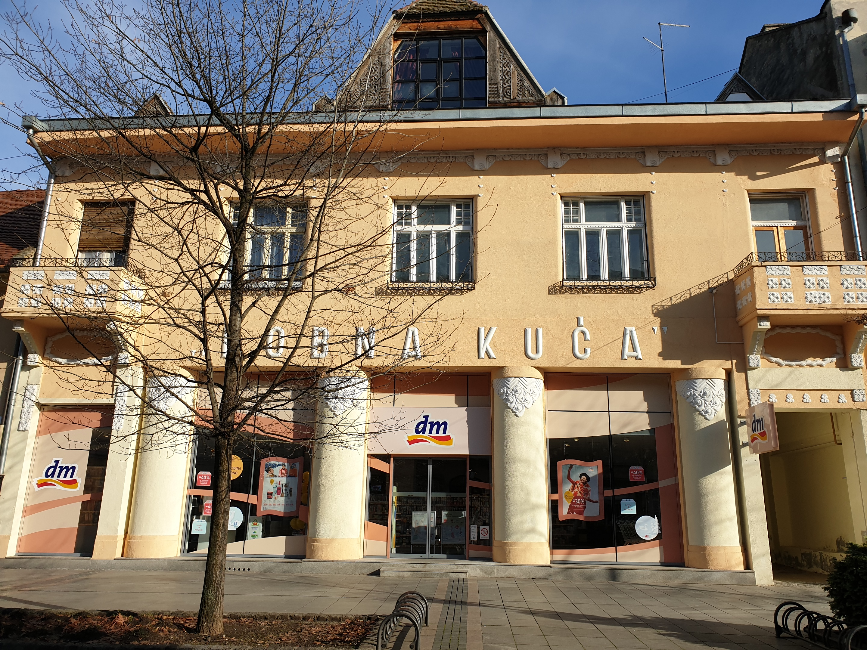 Singerova zgrada